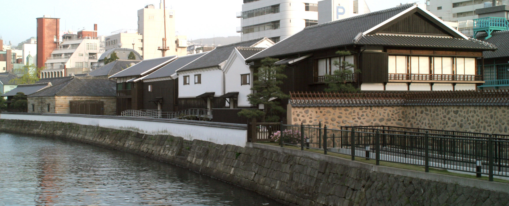 One year anniversary from Nagasaki